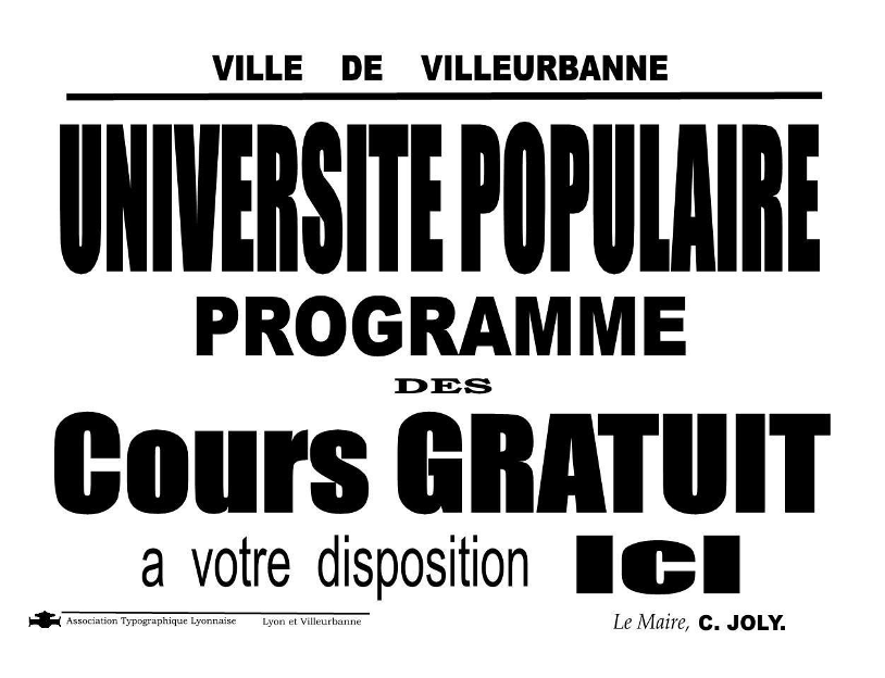 Poster displaying courses of French Université populaire, equivalent to "Folk high school".